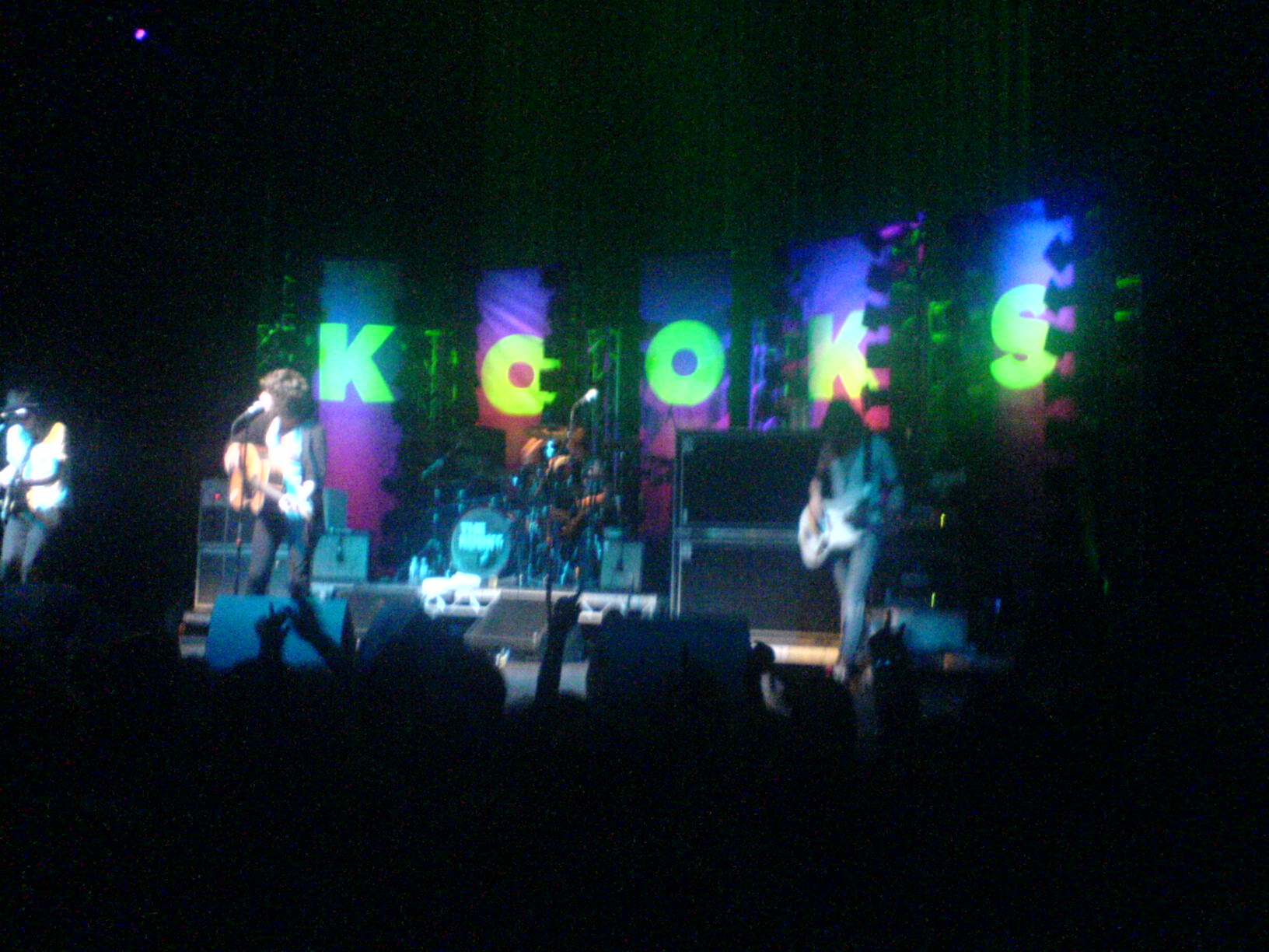 The Kooks in Groningen (Netherlands). Not a very good picture, sorry.